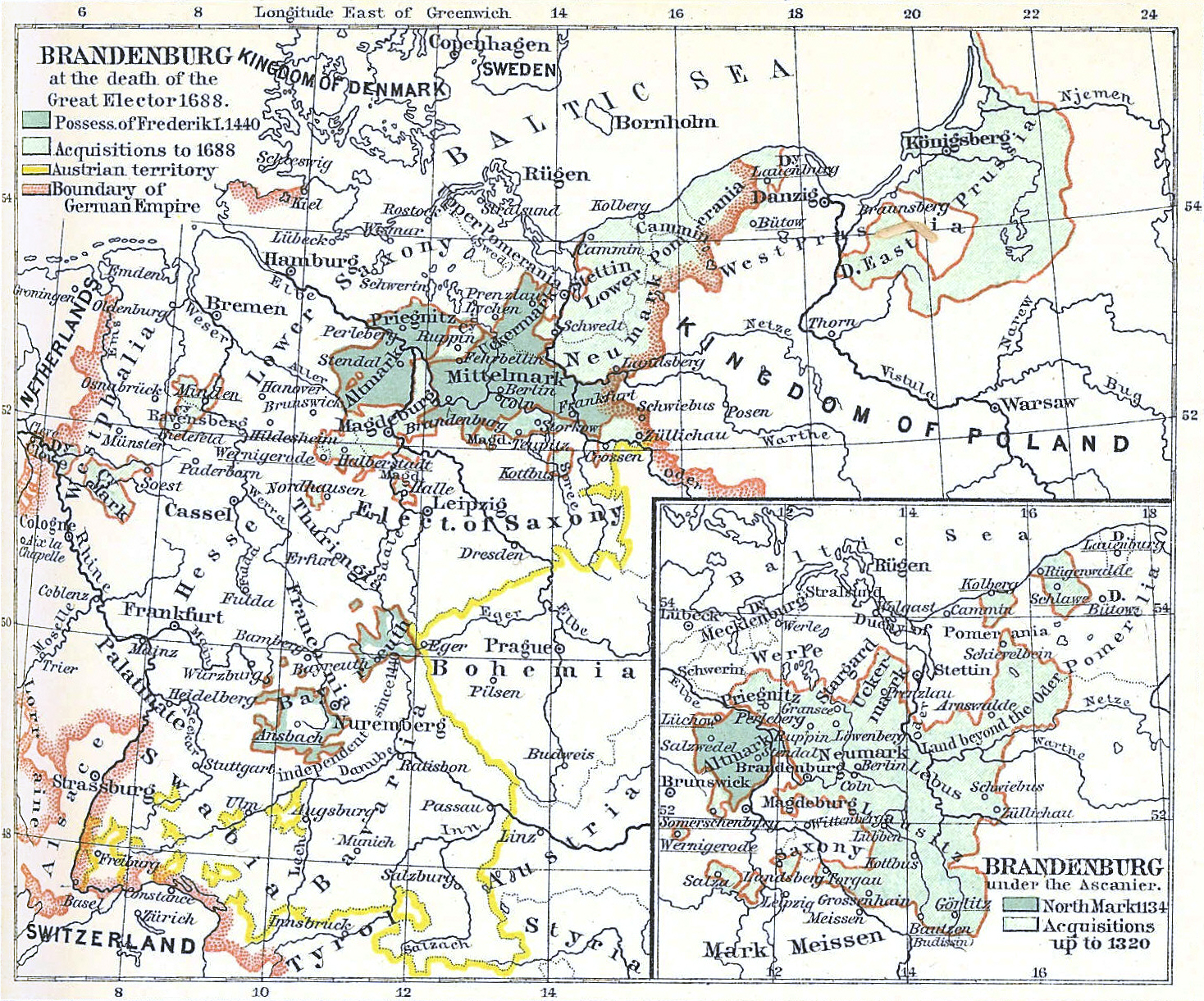 Upper map of two about The Development of Brandenburg to a Prussian Power